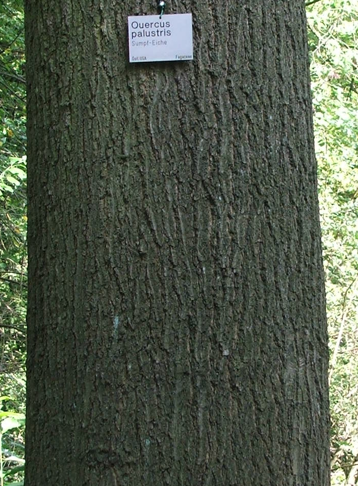 bark of Quercus palustris